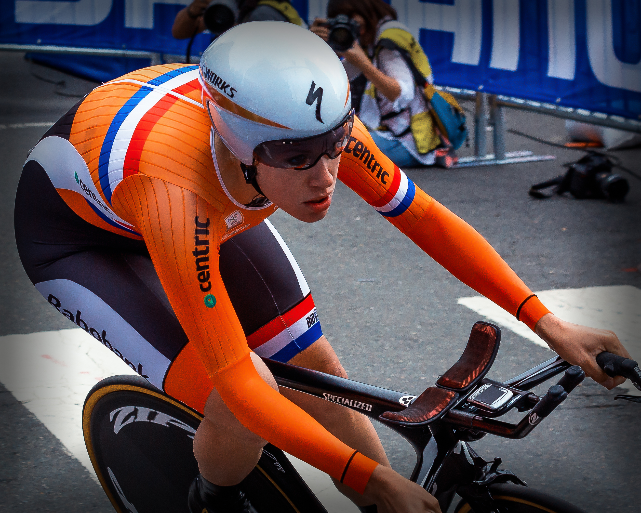 UCI Road World Championships 2015, Richmond, VA #UCI2015 - Women's Elite Time Trials 2015 UCI Road World Championships, in Richmond, United States